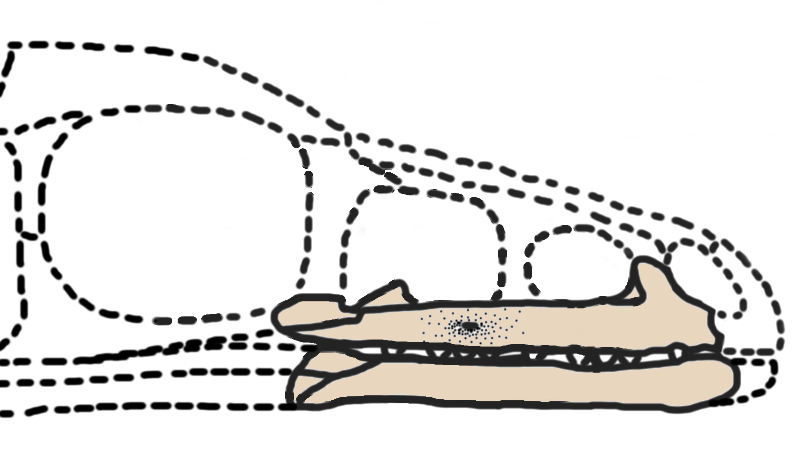 Reconstructed skull of Archaeornithoides, known material in brown.